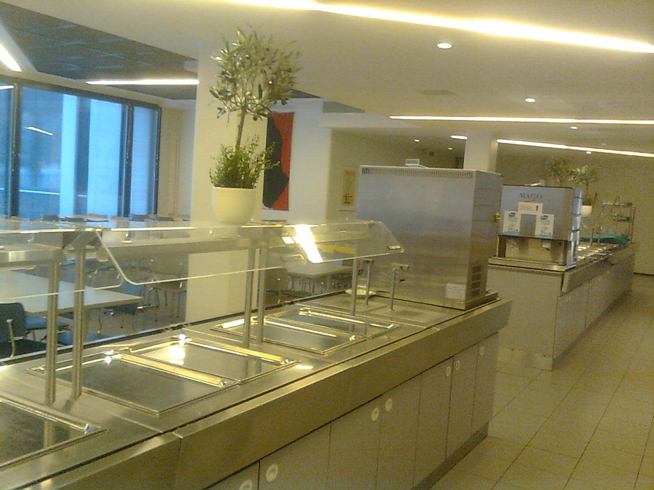 A picture of Munkkiniemi Upper Secondary School cafeteria